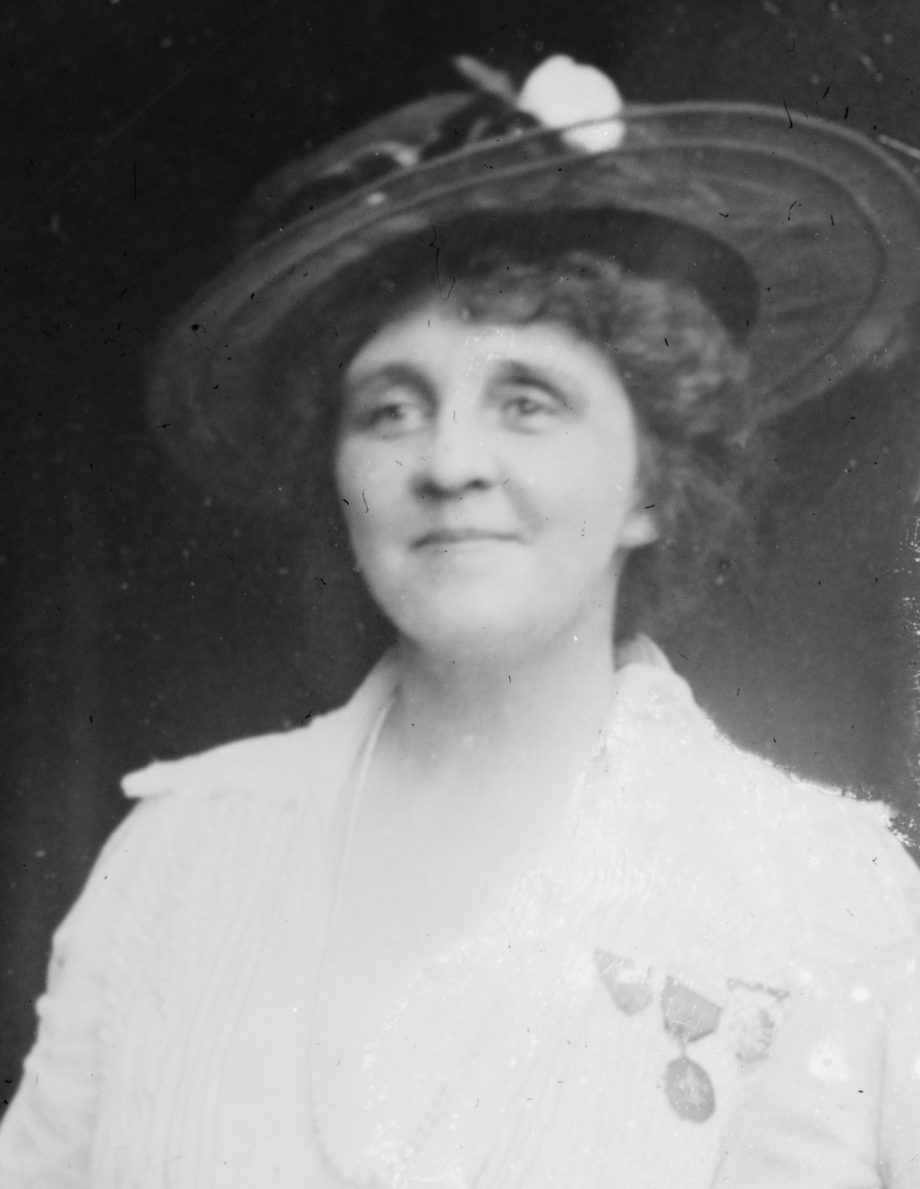 Winifred Holt, American sculptor and advocate for the blind.